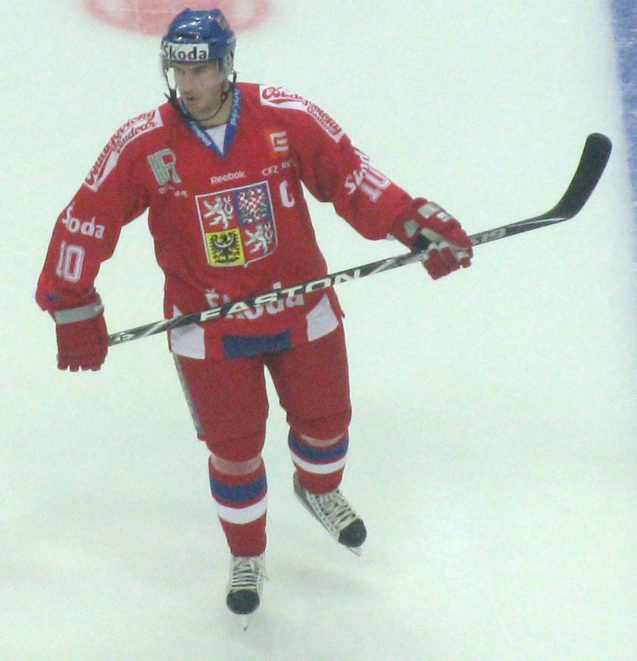 Roman Červenka